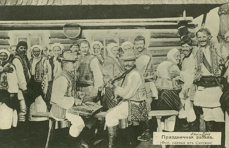 People from Pokuttya, Ukraine